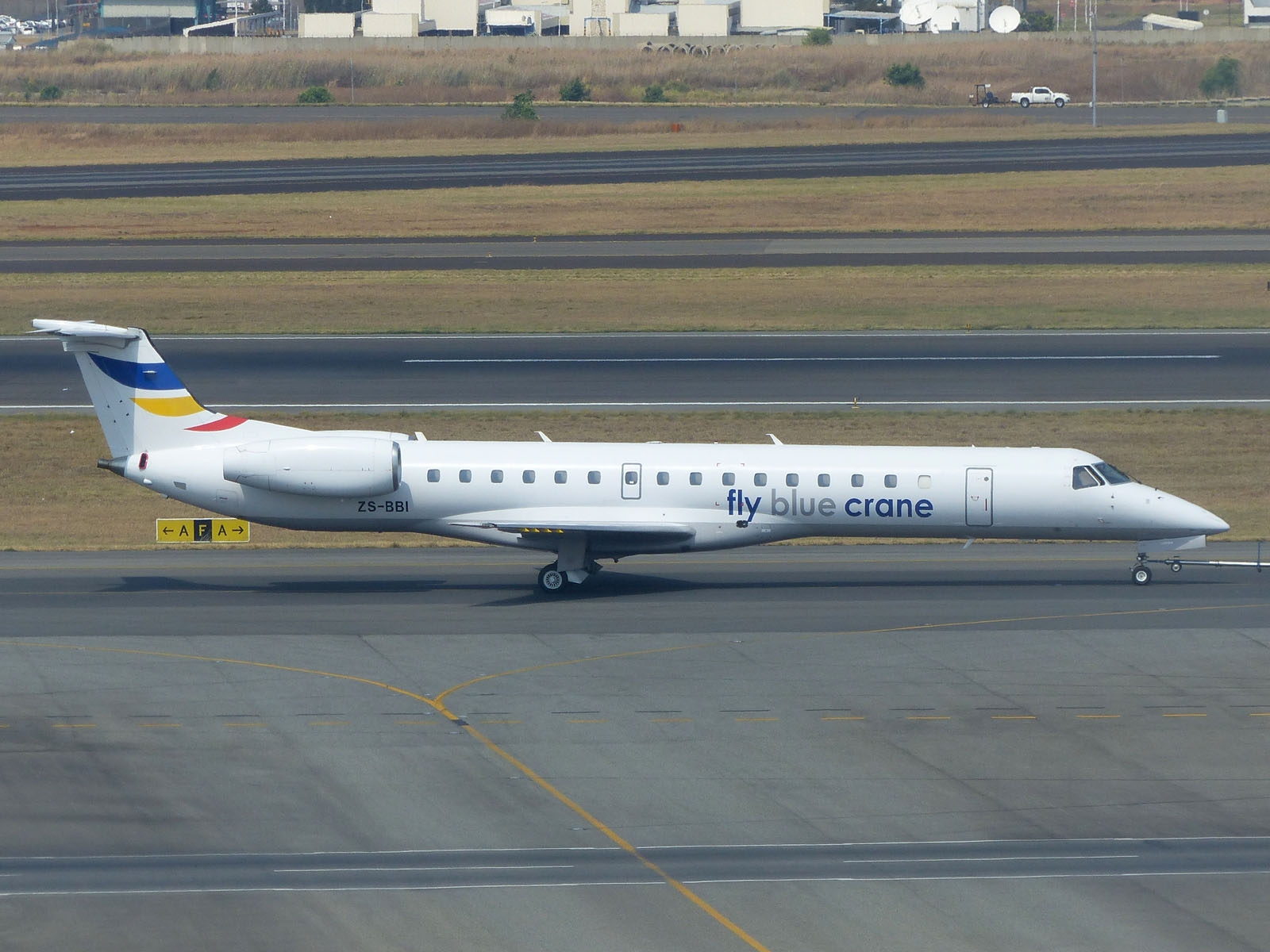 Fly Blue Crane ERJ-145 (ZS-BBI) being towed to a stand at OR Tambo